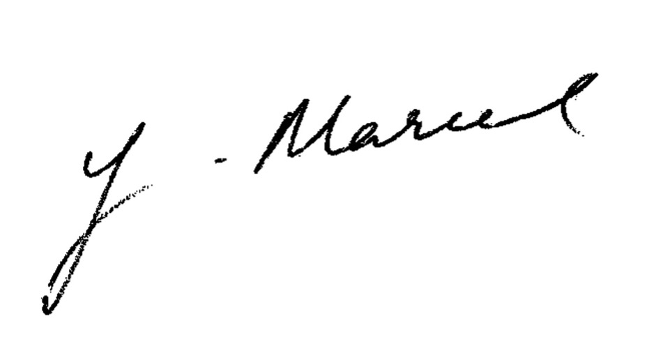 Signature of Gabriel Marcel, French philosopher